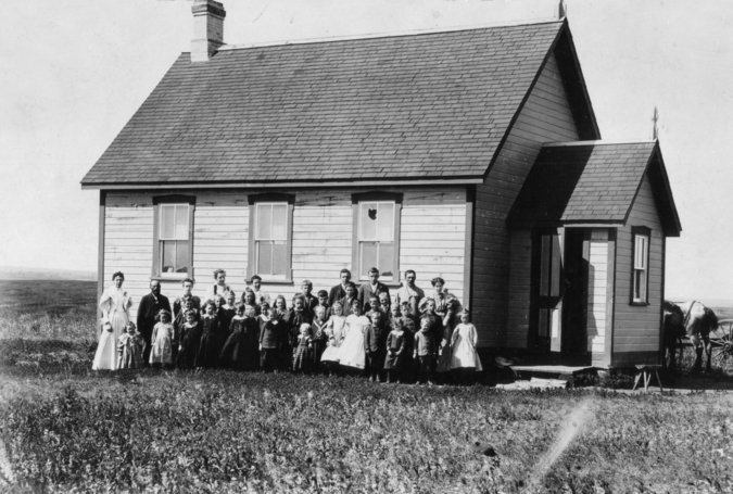 Wood Lake School, #751, Manitoba